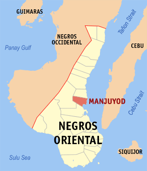 Map of Negros Oriental showing the location of Manjuyod